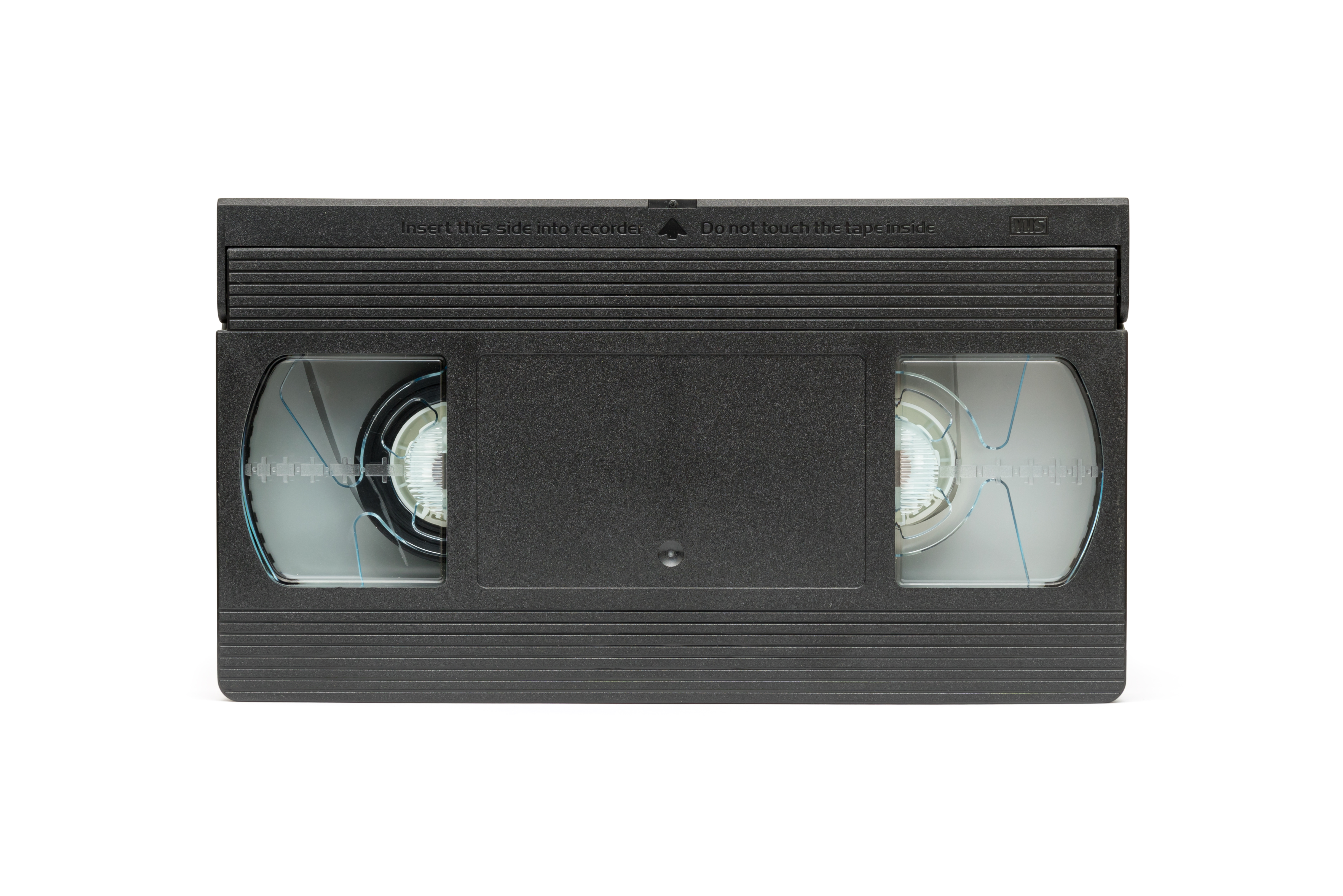 Front view of VHS E-30 videocassette (PAL system)